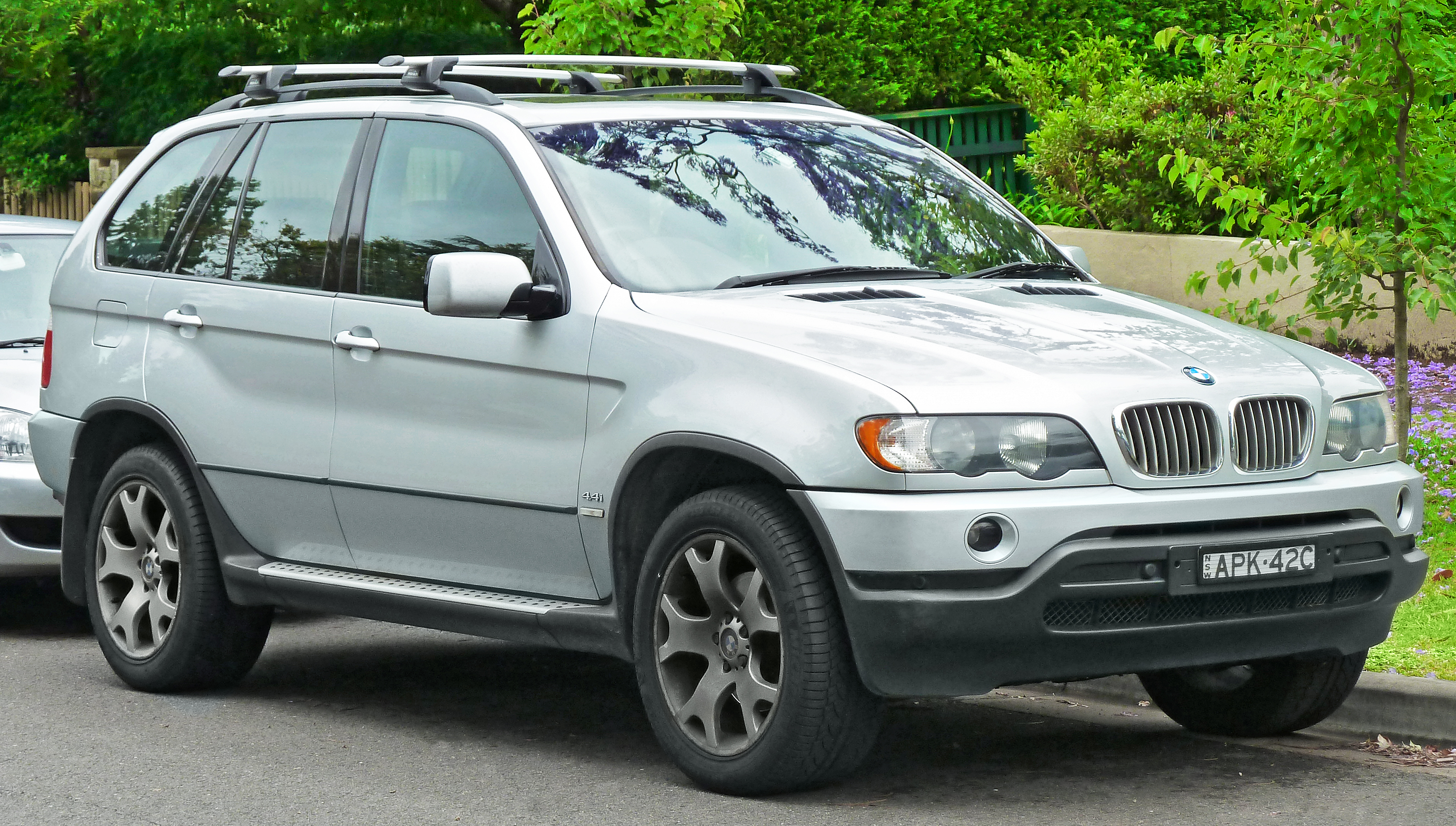 2000–2003 BMW X5 (E53) 4.4i wagon. Photographed in Gordon, New South Wales, Australia.